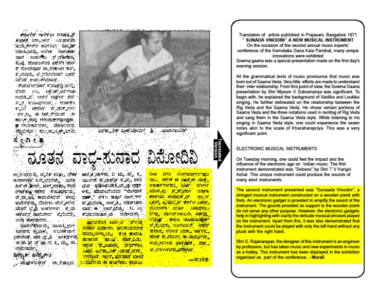 Press report and image of event in 1971, of demonstartion of electric veena by G Raj Narayan